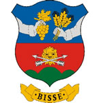 Coat of arms of Bisse, Hungary